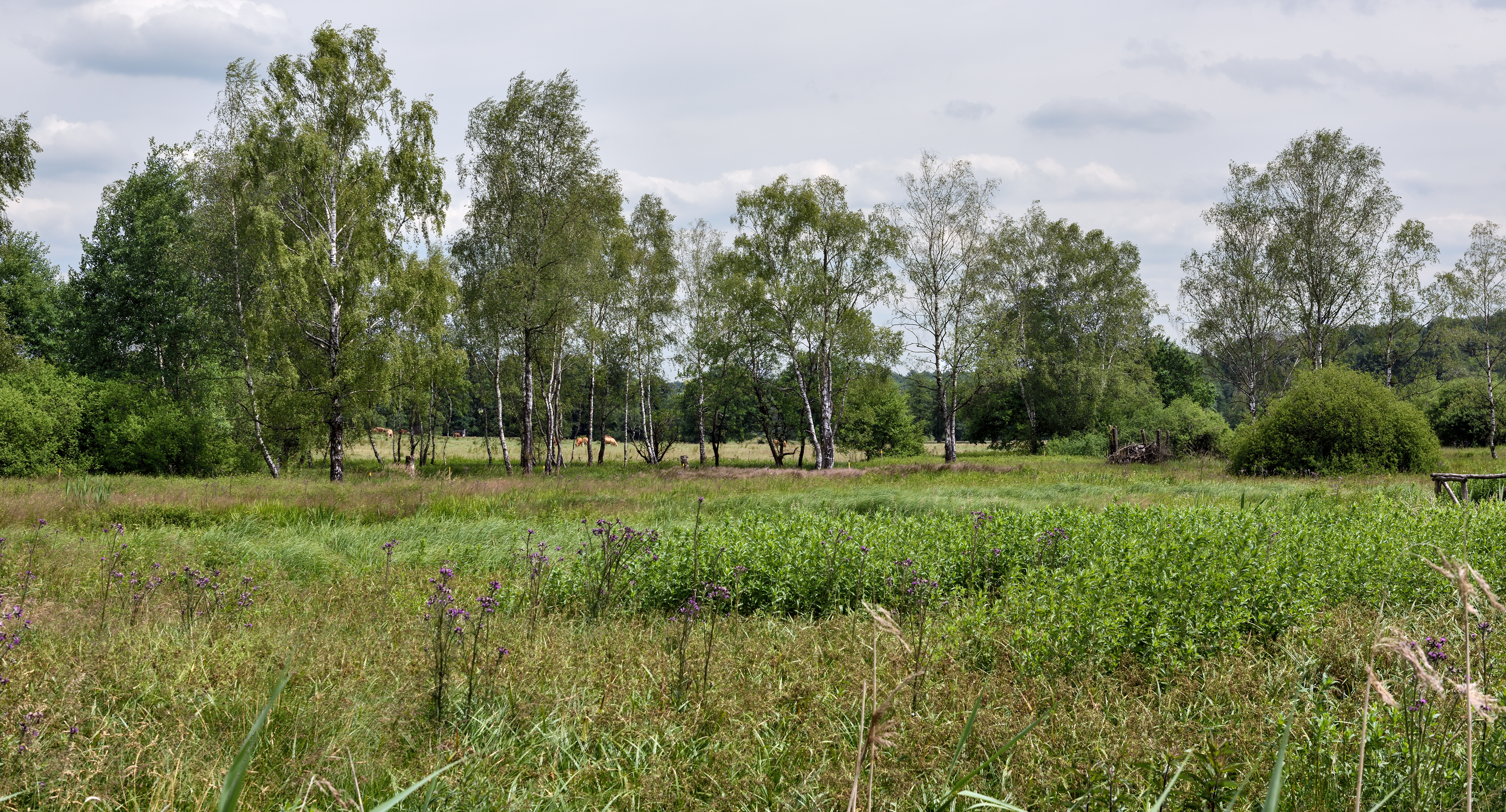 Marais de Grendel, Luxembourgish-Belgian nature reserve located between Colpach-Bas (L, commune of Ell) and Grendel (B, commune of Attert).